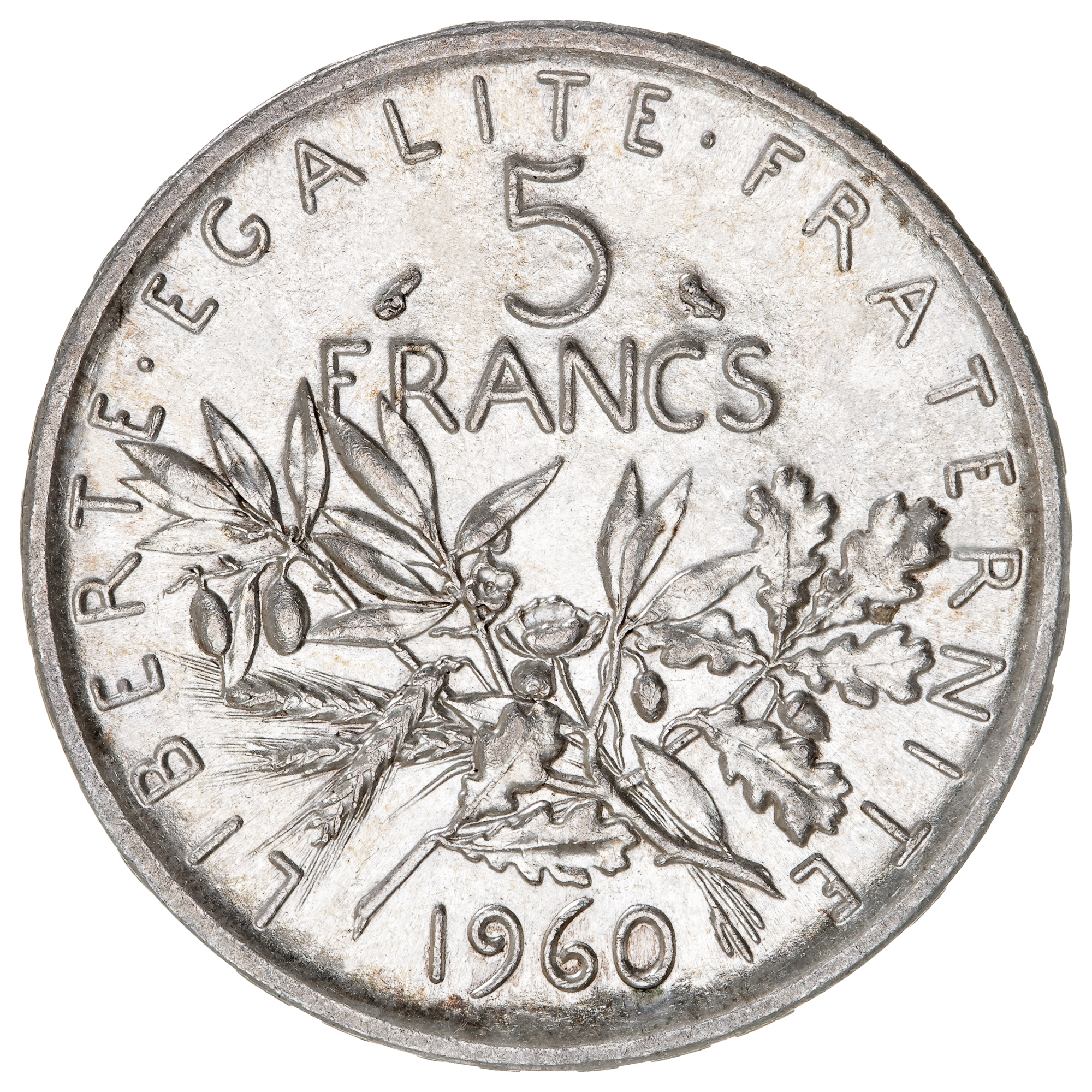 Reverse of the 5 French francs silver coin, 1960 (F.340/4). Silver, diameter 29 mm, 12 g.